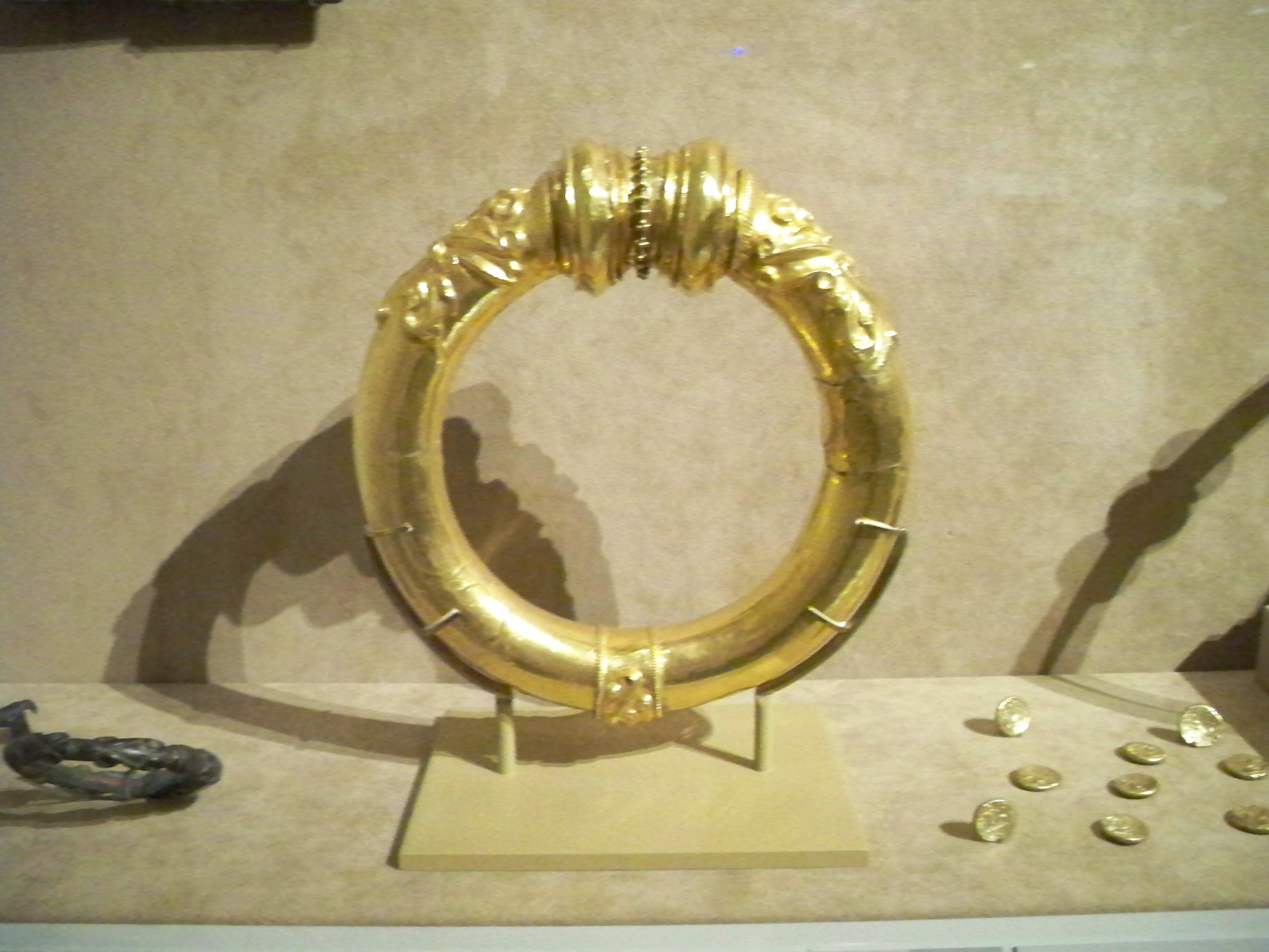 Gold Celtic neck ring, at the Metropolitan Museum of Art.